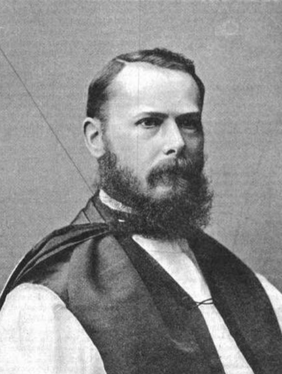 Image of Bishop Henry Parker published in the Church Missionary Gleaner June 1888. It was part of an article reporting the untimely death of the second Anglican bishop to attempt to reach Buganda